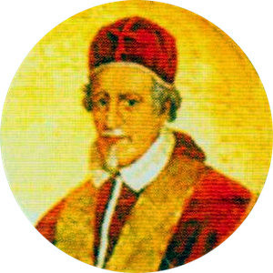 Portait of Pope Innocent XII in the Basilica of Saint Paul Outside the Walls, Rome